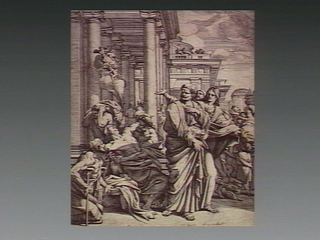 Peter cures a demoniac by casting his shadow upon him. Etching by R. Vuibert, 1639, after himself. Iconographic Collections Keywords: Remy Vuibert; Peter; John